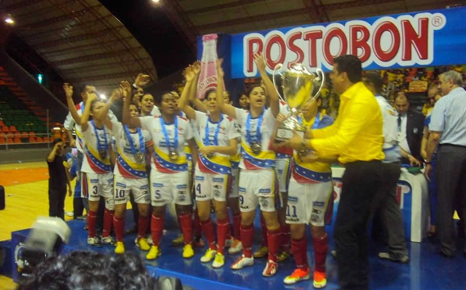 Venezuela women's national futsal-AMF team obtaining, silver medal in World Championship in Cali, Colombia